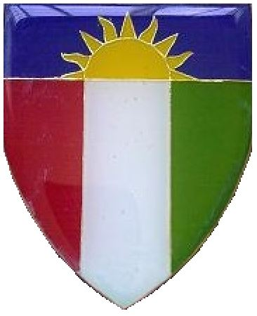 SADF Regiment North Natal shoulder emblem